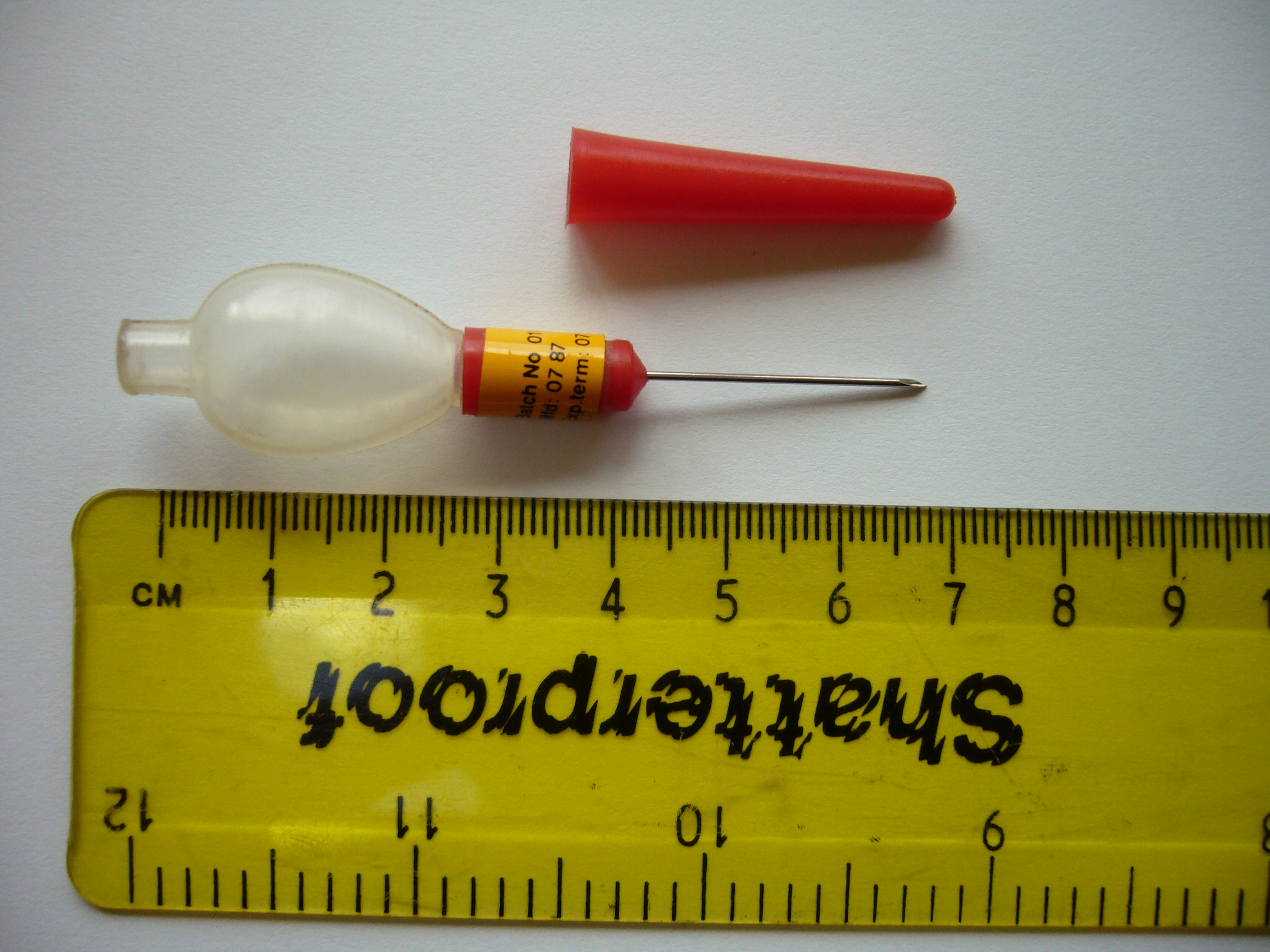 A modern Morphine syrette, as used by the British Army and other nations. This syrette is empty, but originally contained an aqueous solution of Omnopon. Morphine should not be administered if there is advanced respiratory insufficiency or a severe head injury. The normal dose is a single syrette administered via intramuscular injection, after which the letter "M" is written on the forehead of the patient with a black felt tip pen, prior to evacuation to the field hospital. Note:- it is highly dangerous to administer more than one morphine syrette over a short period of time due to the risk of overdose. Two syrettes can be administered in quick succession, but only for palliative care i.e. the patient is so severely wounded that there is no realistic prospect of their survival. Such a scenario would only ever occur with hopeless cases during the most extreme wartime conditions.